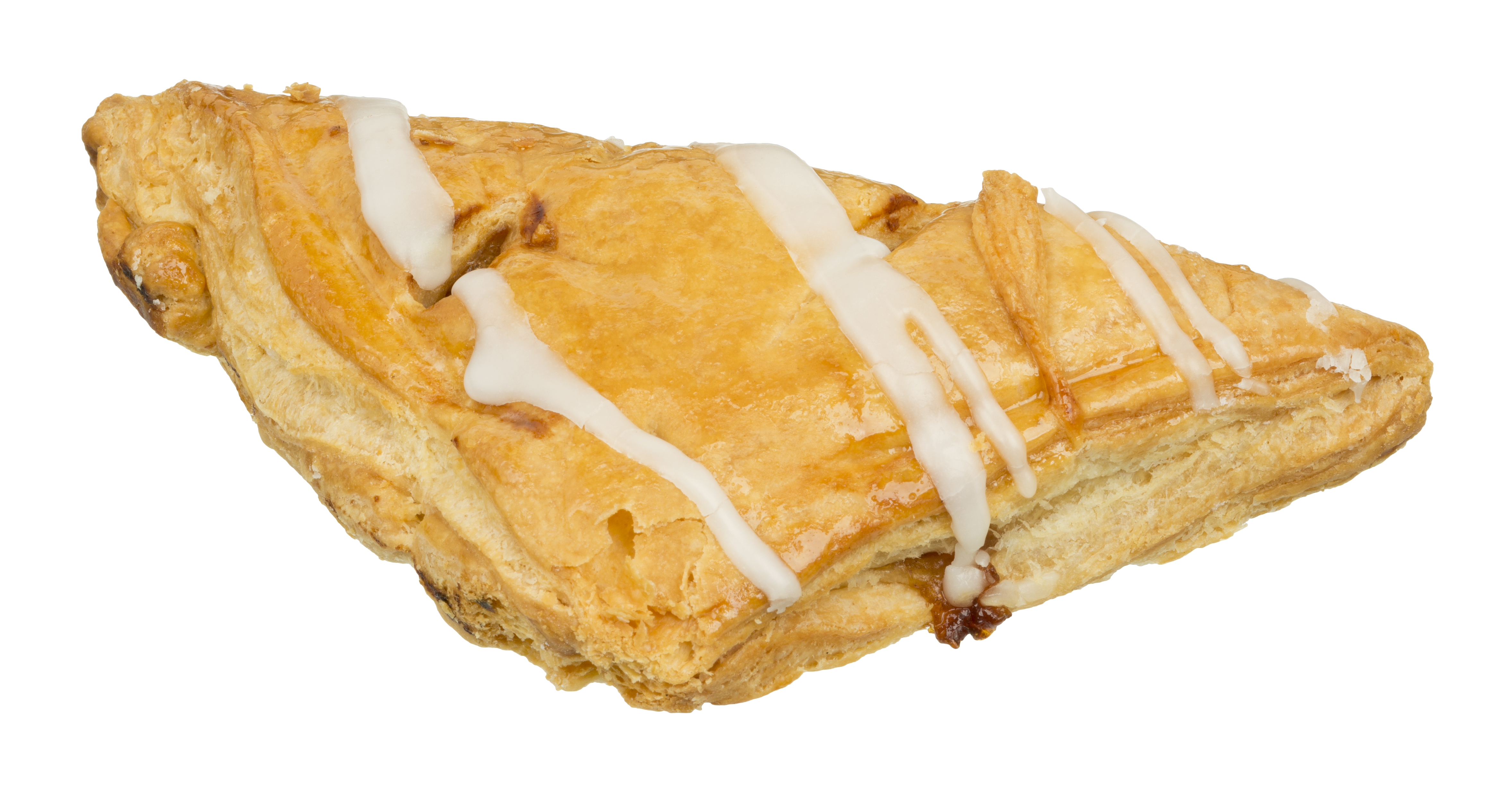 An apple-filled turnover pastry from a local diner, bought in Brooklyn, NY.